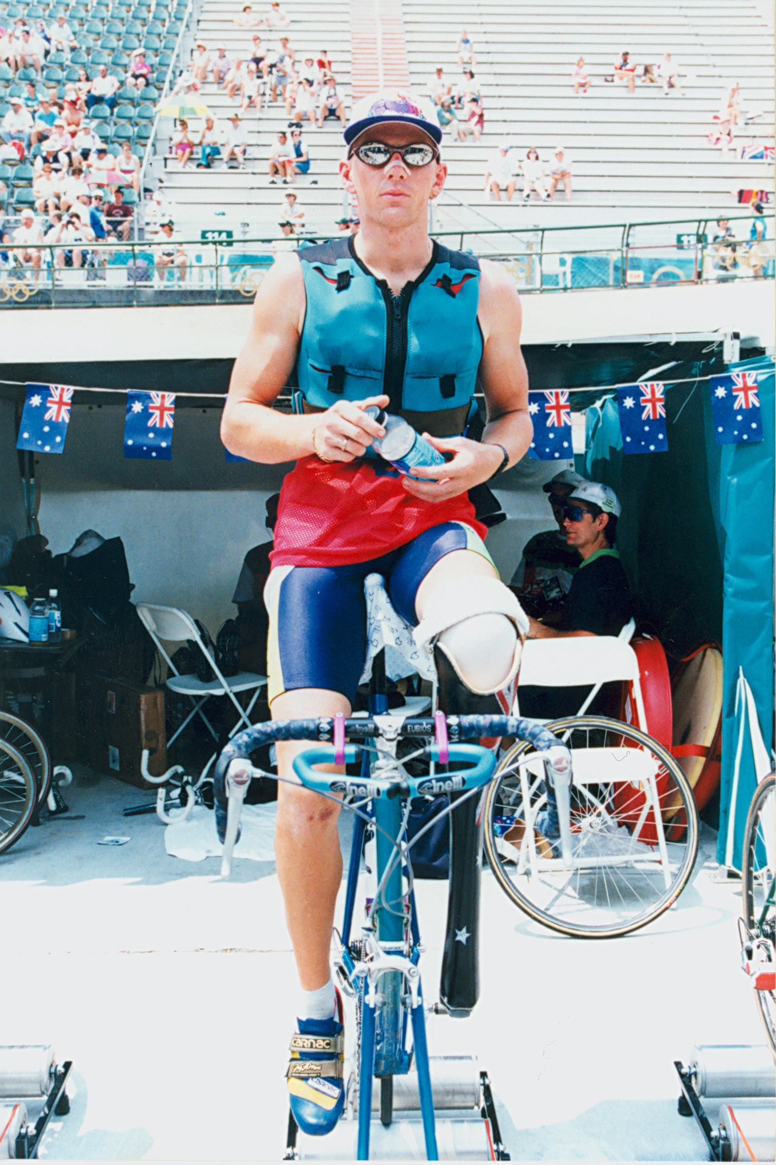 Australian Para-cyclist Paul Lake cools off in an ice vest at the Atlanta 1996 Paralympic Games.